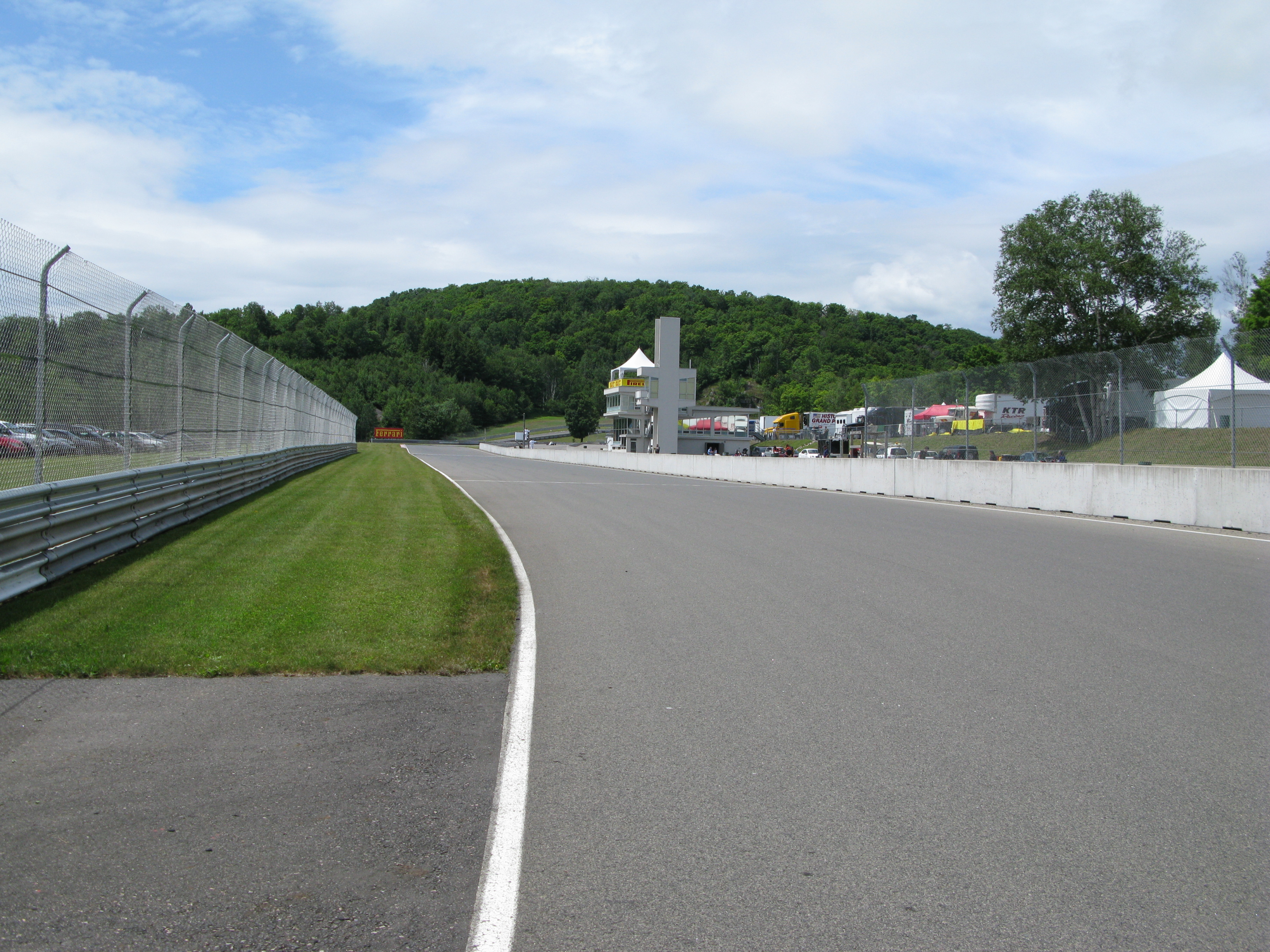 The control tower and start-finish straight (looking west, against the flow of the circuit) at Circuit Mont-Tremblant, Quebec, Canada. Taken during a lull in the Sommet des Legends race meeting, July 2009.